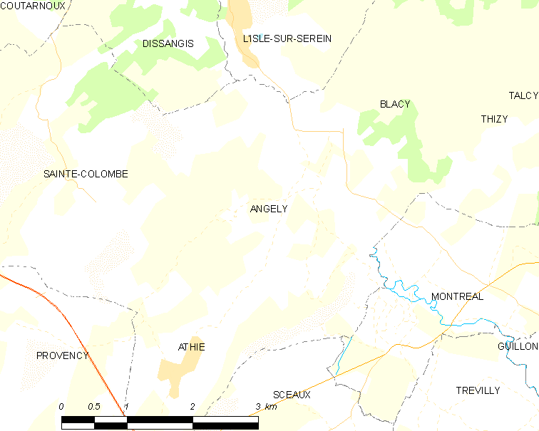 Map of French municipality Angely